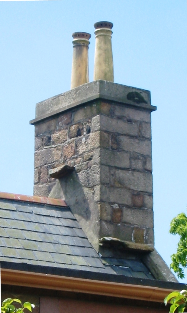 Witches' stones on a chimney in Jersey. In folklore, these are believed to provide resting-places for witches - in fact they were to protect the joins of thatched roofs from seeping water.